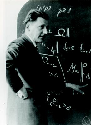 Photo of Fabio Conforto